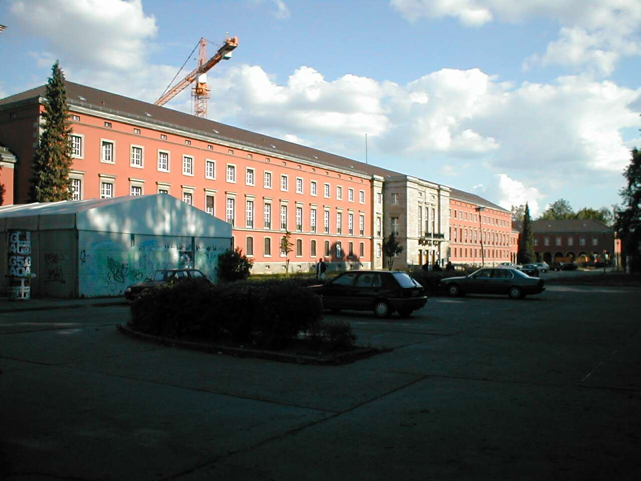 University Potsdam Babelsberg, No. 1, Former Head of German Red Cross Building